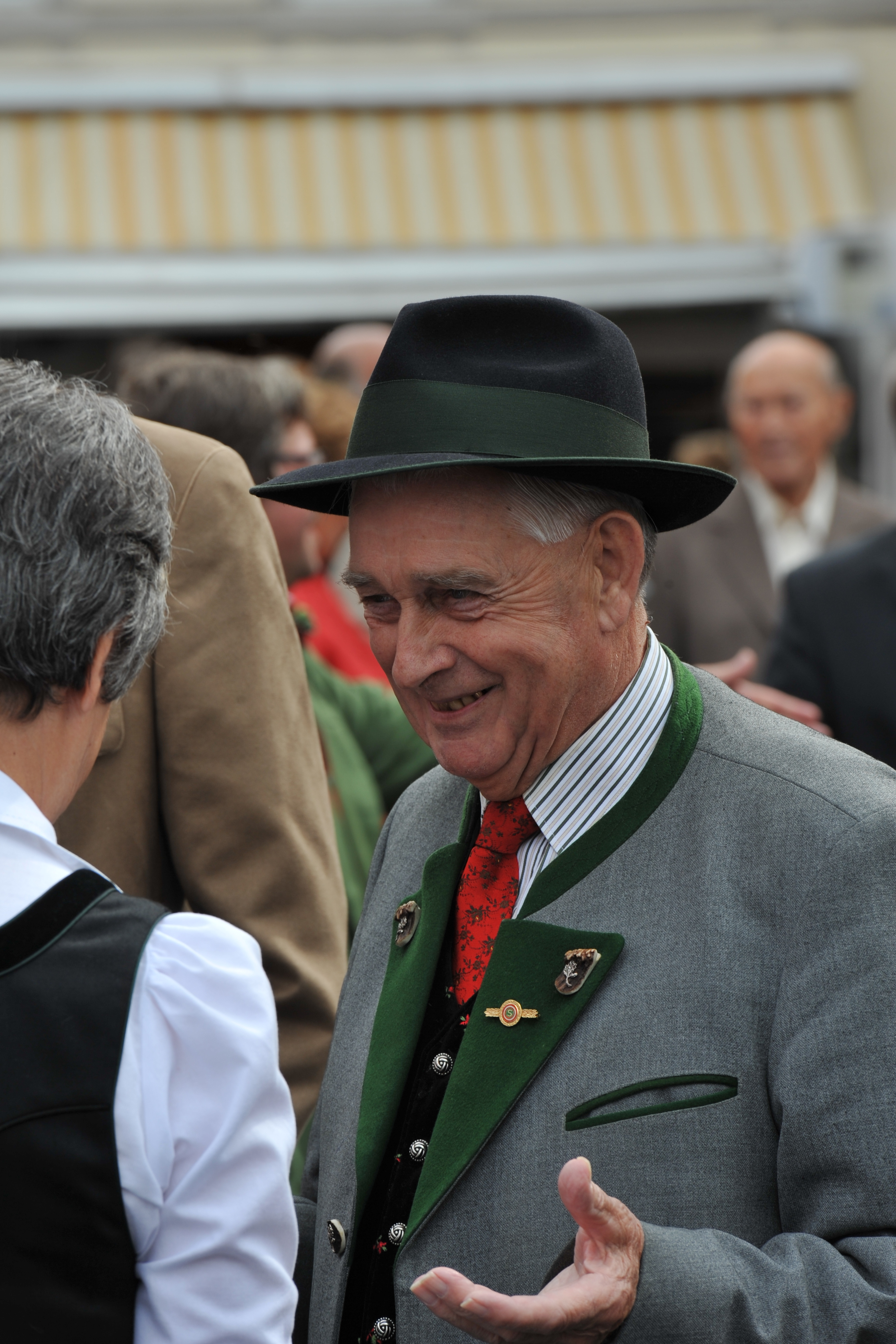 The making of this work was supported by Wikimedia Austria. For other files made with the support of Wikimedia Austria, please see the category Supported by Wikimedia Österreich. Karl Weichselbaumer bei der Ortsbildmesse Perg 2012